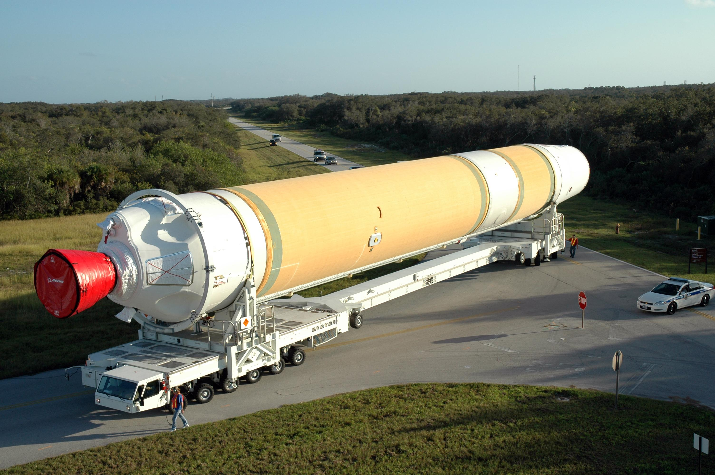 KENNEDY SPACE CENTER, FLA. -- The Delta IV first stage that will be used to launch the GOES-O satellite makes a wide turn toward Complex 37 on Cape Canaveral Air Force Station in Florida. The satellite is part of the series developed by the Geostationary Operational Environmental Satellite Program, a joint effort of NASA and the National Oceanic and Atmospheric Administration, known as NOAA. Currently, the GOES system consists of GOES-12 operating as GOES-East in the eastern part of the constellation at 75° west longitude, and GOES-10 operating as GOES-West at 135° west longitude. These spacecraft help meteorologists observe and predict local weather events, including thunderstorms, tornadoes, fog, flash floods, and other severe weather. In addition, GOES observations have proven helpful in monitoring dust storms, volcanic eruptions and forest fires. GOES-O is targeted for launch on July 20 aboard a Boeing Delta IV rocket. Photo credit: NASA/Jim Grossmann